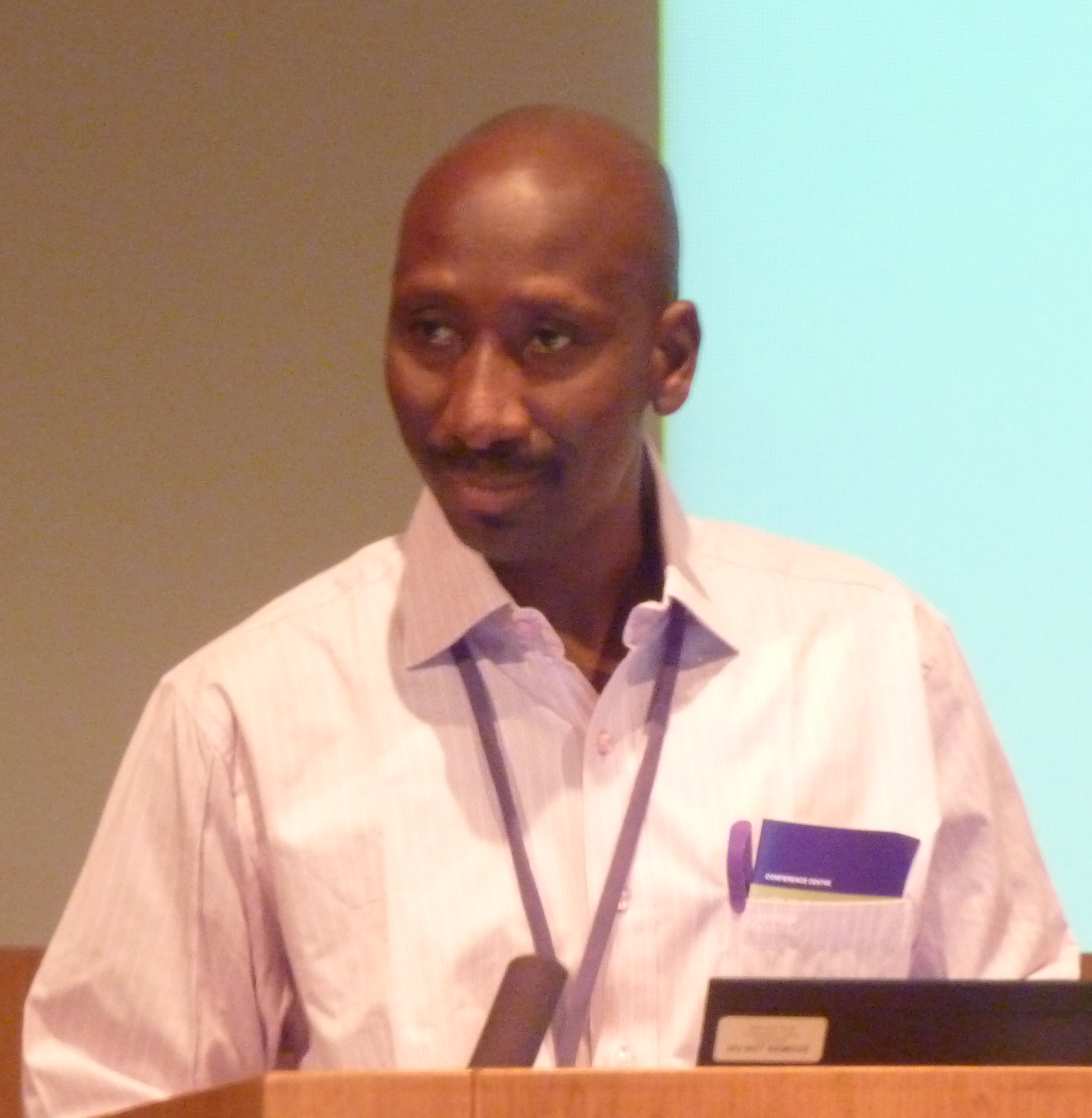 Abdoulaye Djimdé is an Associate Professor of Microbiology and Immunology in Mali.